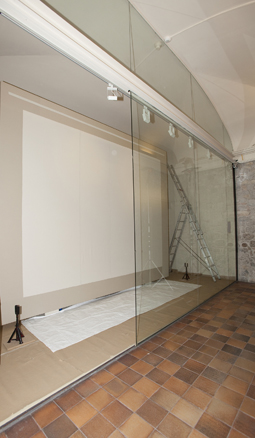 Tapestry of the Creation, 11th – 12th century, tapestry, 365 × 470 cm, Cathedral of Girona, Girona.